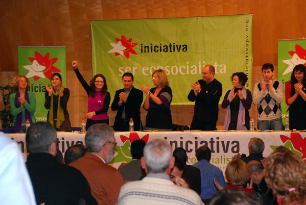 First Congress Iniciativa del Poble Valencià